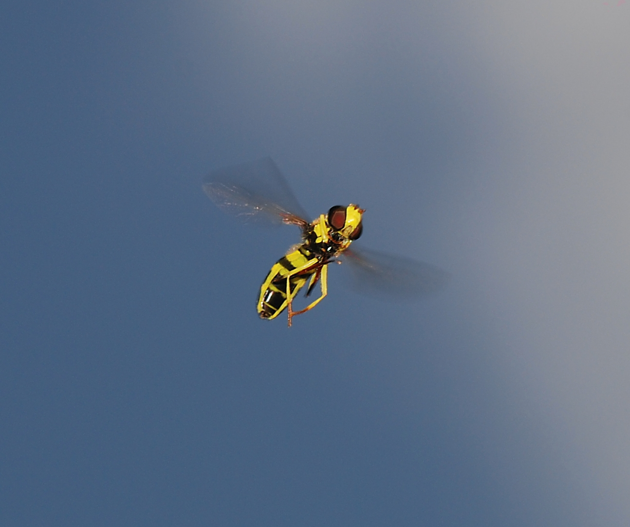 Hoverfly (Xanthogramma pedissequum)